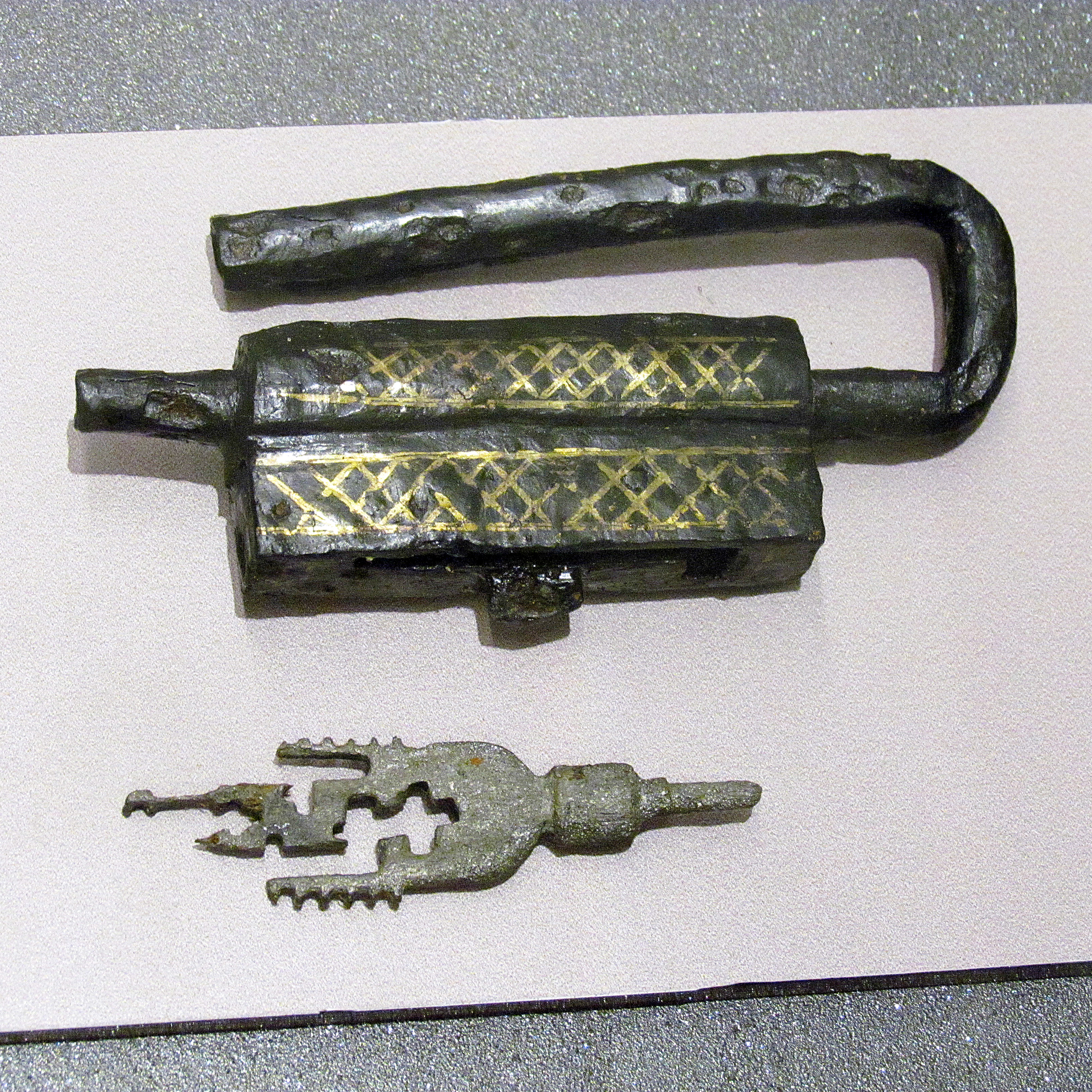 Padlock and key from Serbian medieval town Novo Brdo, National Museum of Serbia